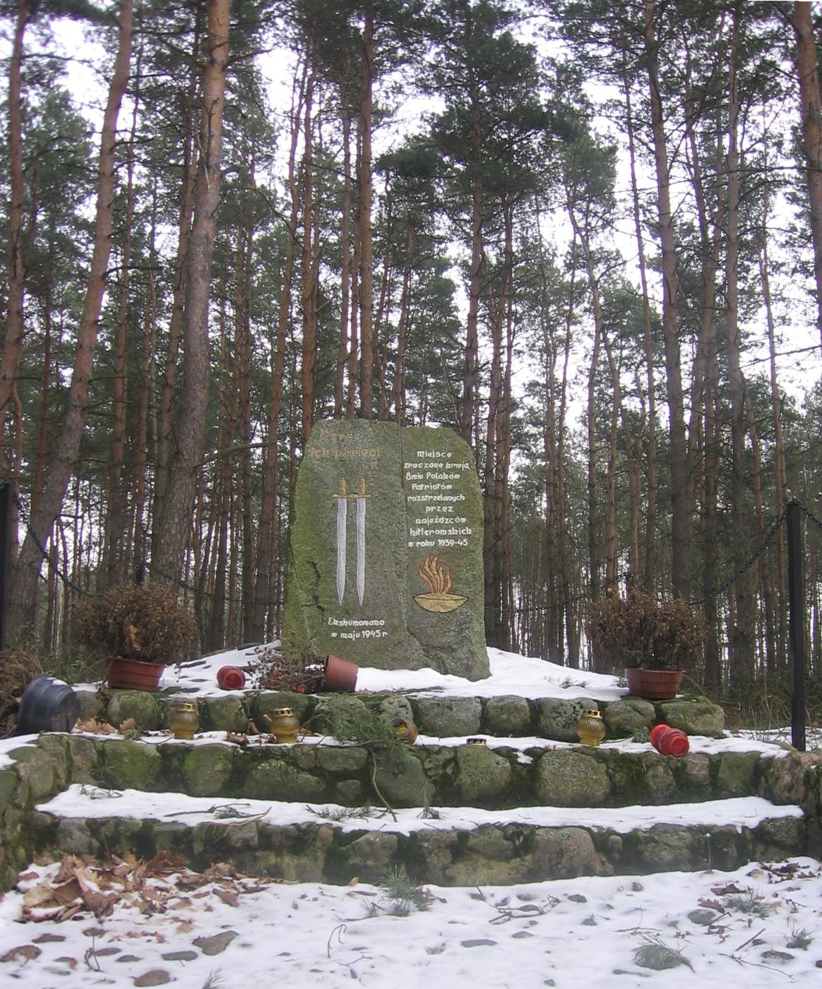 Monument for Padniewko's defenders from September 1939.